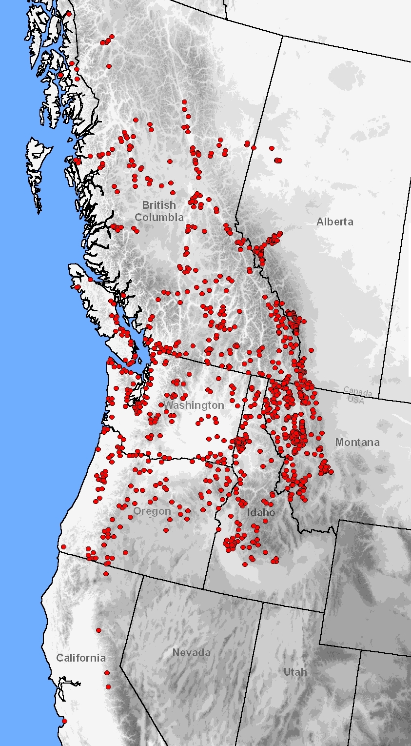 Points showing locations where long-toed salamanders (Ambystoma macrodactylum) have been sighted. The point locations are mapped onto a Digital Elevation Model of western North America at one kilometer resolution. An absence of points does not mean absence of salamanders. Populations cluster along mountain valleys and are less common in the central dry-lands.